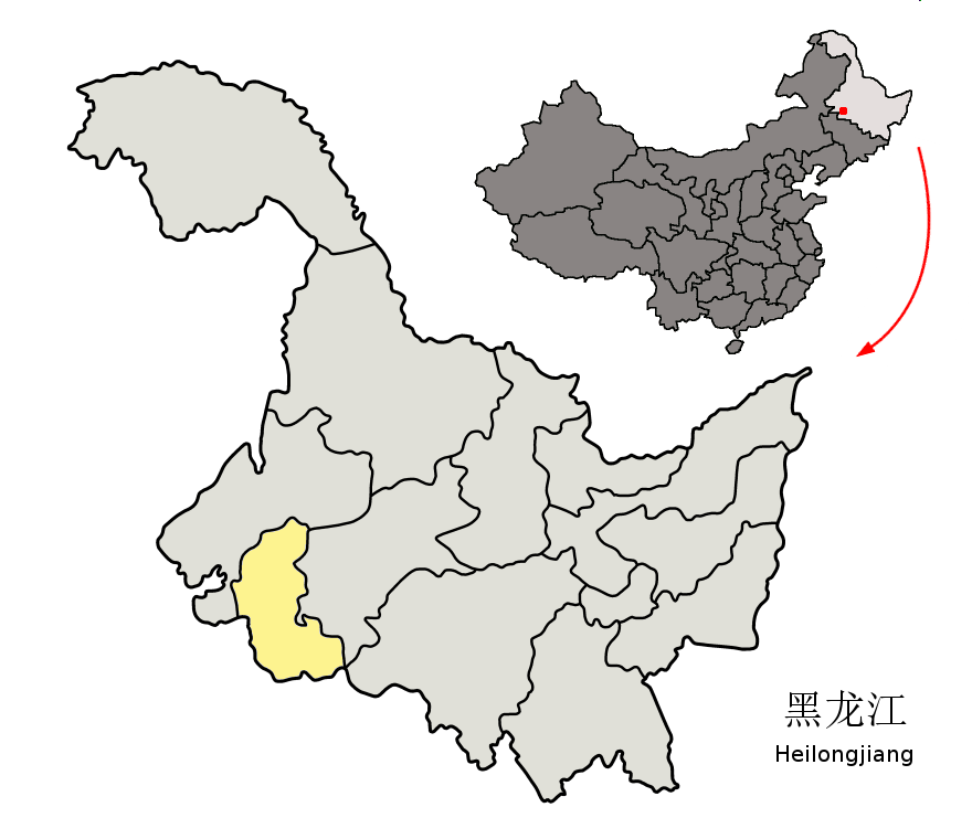 Location of Daqing Prefecture (yellow) within Heilongjiang Province of China Map drawn in november 2007 using various sources, mainly : Heilongjiang Province administrative regions GIS data: 1:1M, County level, 1990 Heilongjiang Counties map from